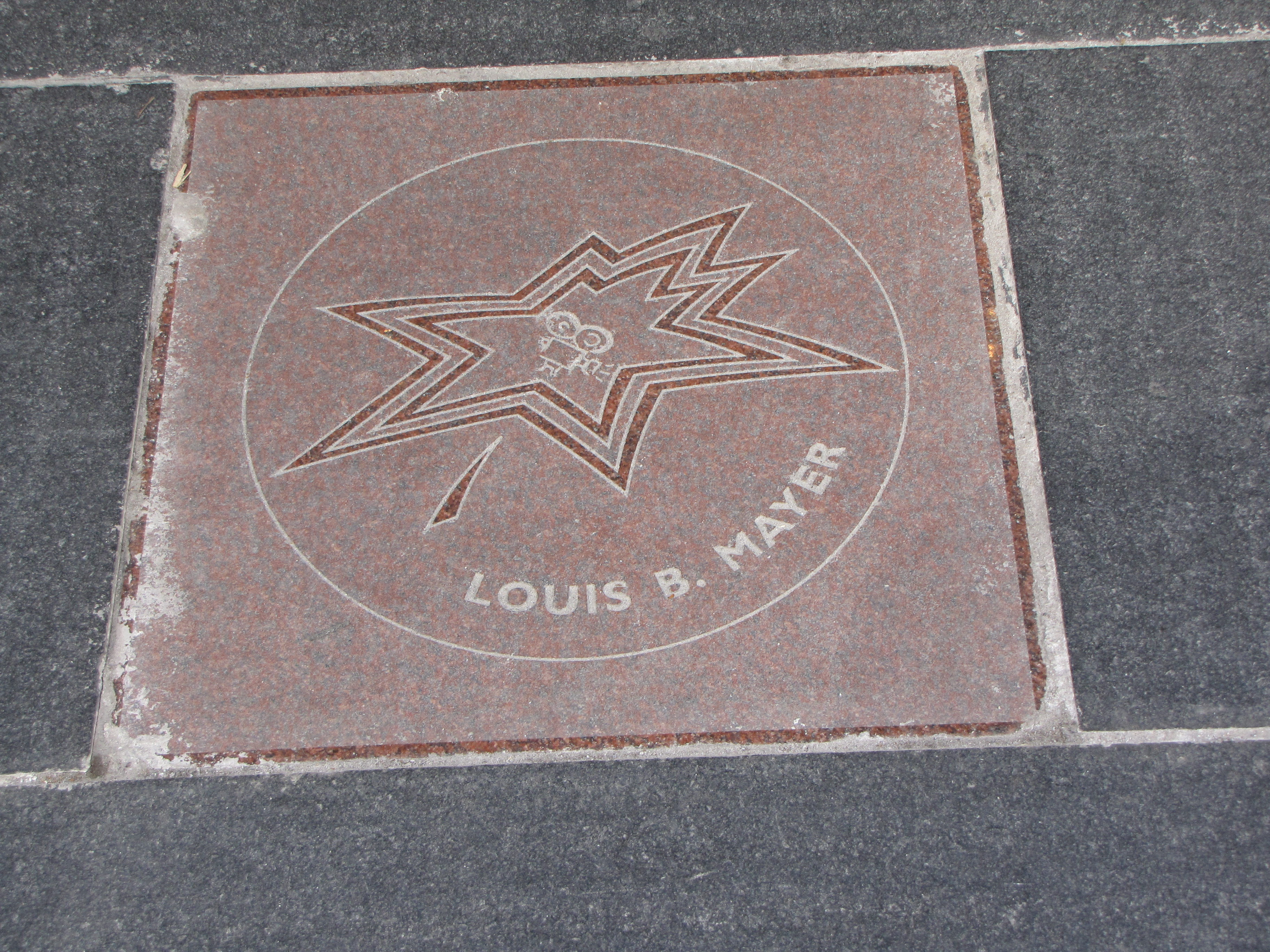 Louis B. Mayer's star on Canada's Walk of Fame